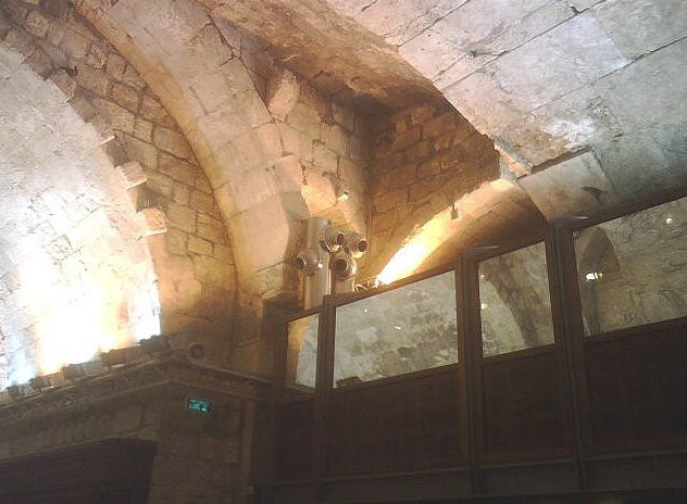 Photo of women's section/gallery in Wilson's Arch, taken from men's section of prayer area.